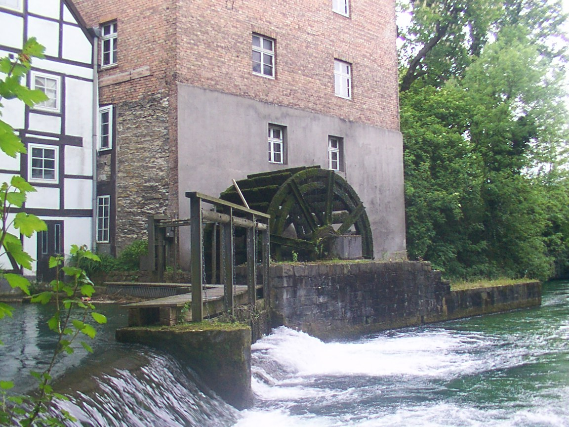 Paderborn: Stümpelsche Mühle an der Pader This is a photograph of an architectural monument.